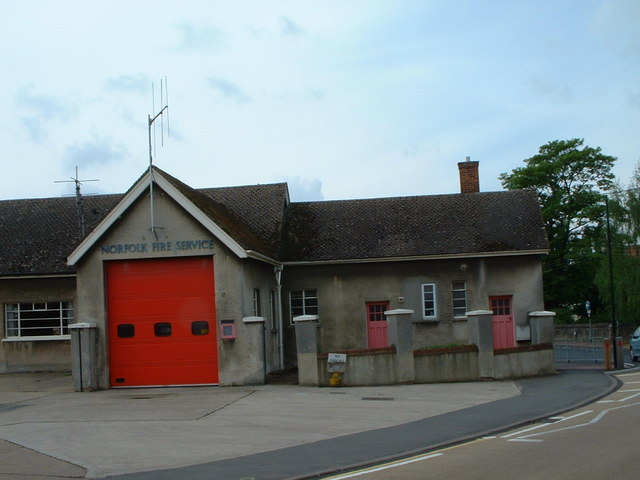 Fire Station, Downham Market. The home to one tender according to the Fire Service website.